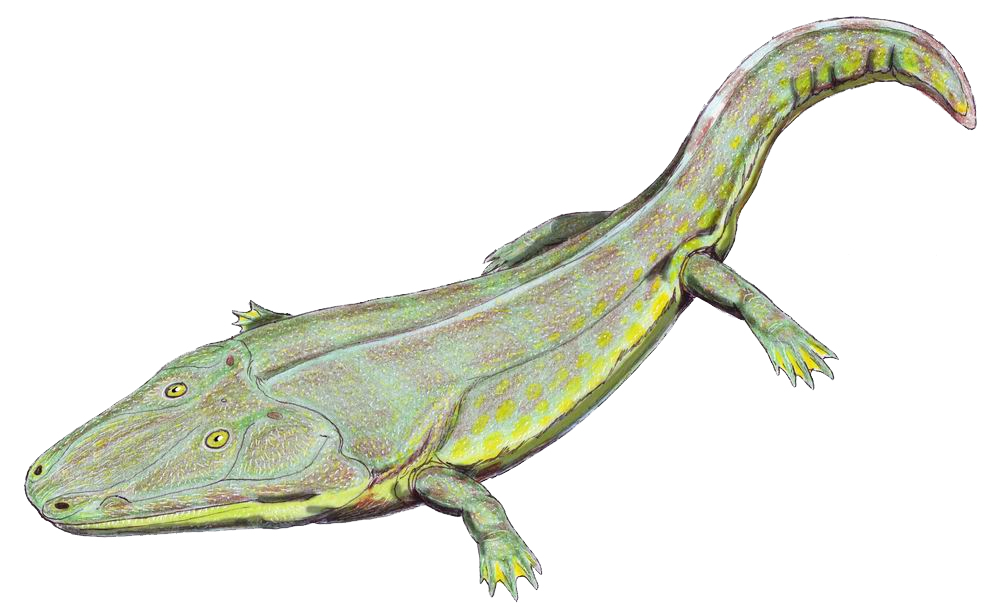 Cyclotosaurus reconstruction, with white background